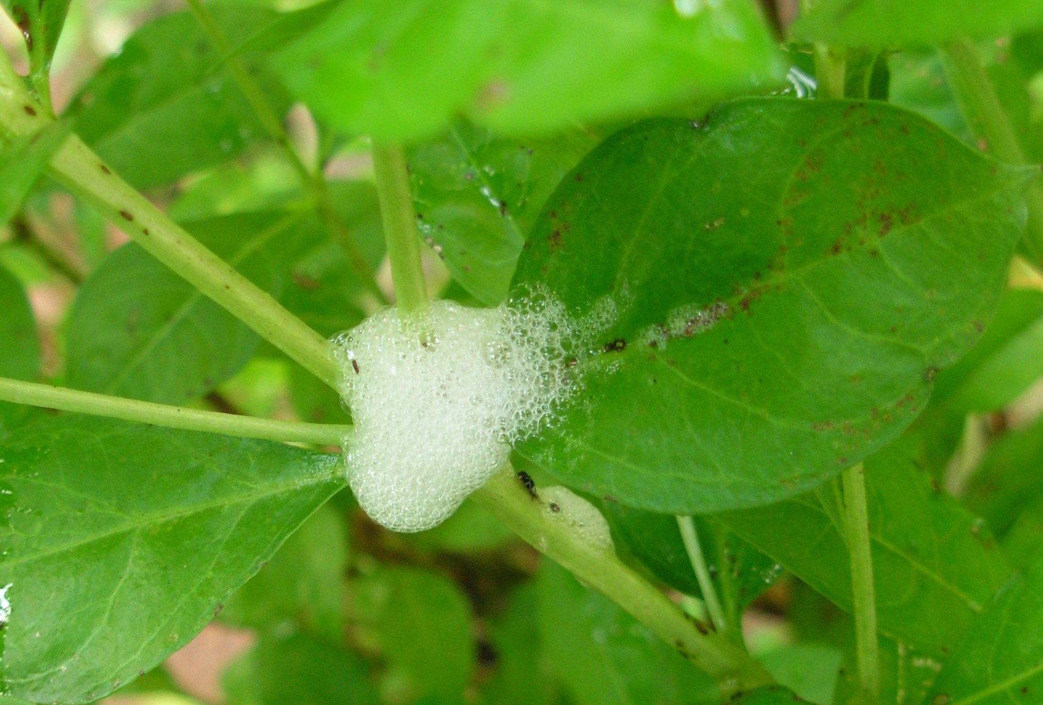 Mantis eggs